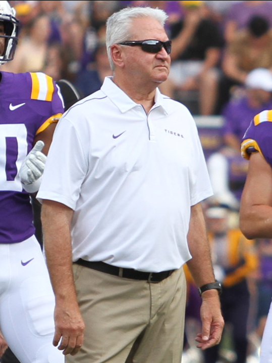 Steve Ensminger, Offensive Coordinator and Quarterbacks Coach, LSU Tigers vs Northwestern LA Demons, September 14, 2019, Tiger Stadium, Baton Rouge, Louisiana, Tammy Anthony Baker, Photographer @tabinla @tmabaker